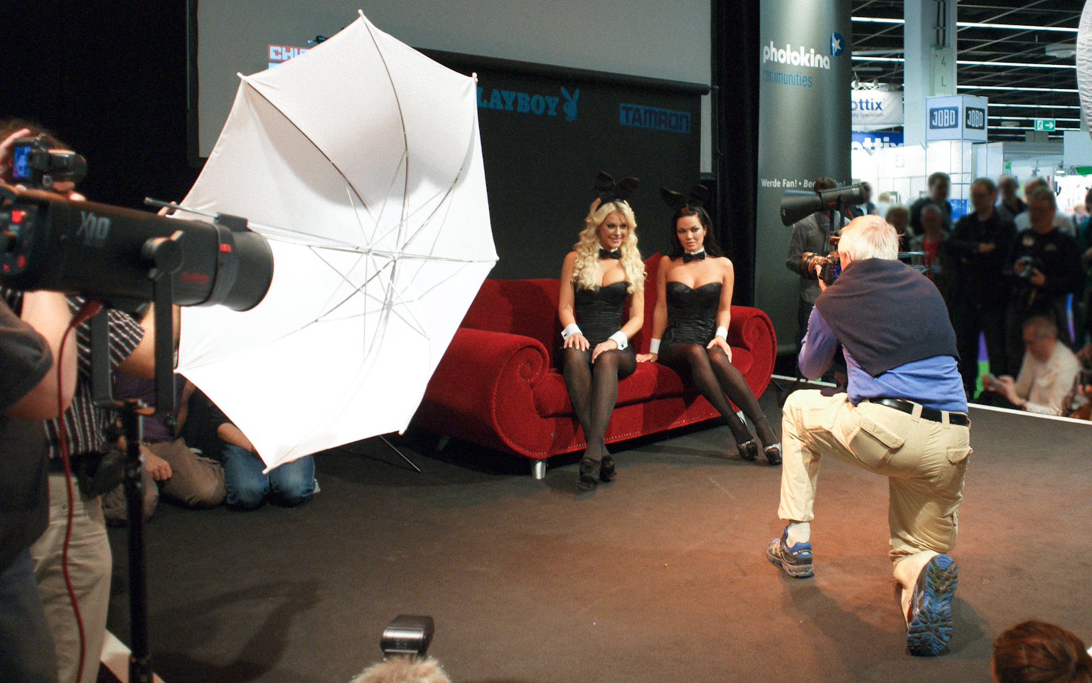 Photokina 2012, Cologne